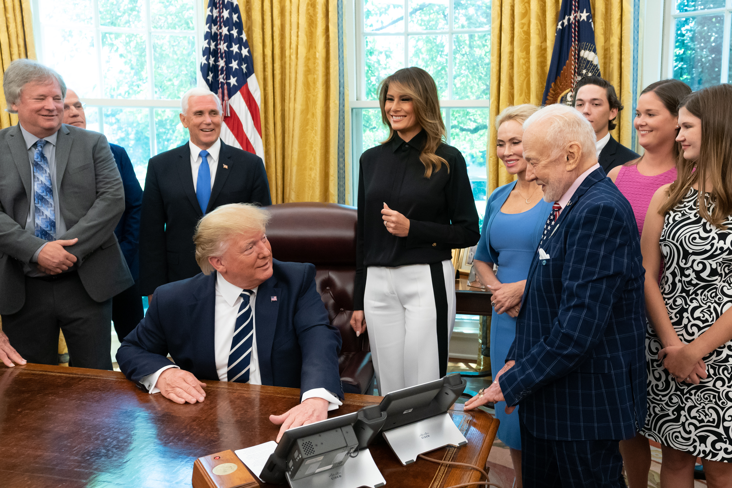 President Donald J. Trump, joined by First Lady Melania Trump and Vice President Mike Pence, speaks with Apollo 11 astronaut Buzz Aldrin during a commemorative photo opportunity for the 50th anniversary of the Apollo 11 moon landing Friday, July 19, 2019, in the Oval Office of the White House. (Official White House Photo by Andrea Hanks)